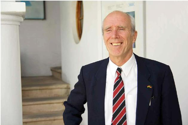 portrait